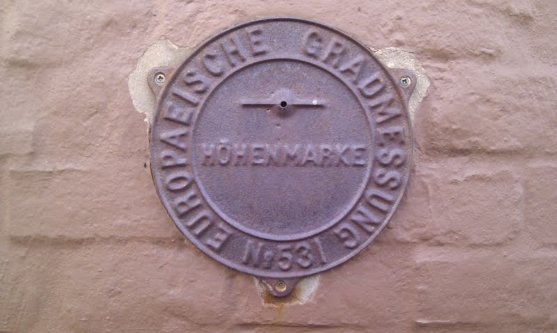 in Bünde, District of Herford, North Rhine-Westphalia, Germany.